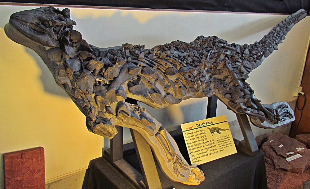 In 2000 a virtually complete Scelidosaurus skeleton was discovered in England. This fossil's hundreds of armor plates and spikes are preserved in their life positions, providing extraordinary details about how this dinosaur looked. St. George is the only place anywhere in the Western Hemisphere that the 11-foot long Scelidosaurus replica has been on display. The St. George Dinosaur Discovery Site at Johnson Farm (St. George, Utah) is home to exceptionally well-preserved dinosaur tracks, some displaying skin impressions. These tracks, along with hundreds of fossil fish, plants, rare dinosaur remains, invertebrates traces and important sedimentary structures, show evidence that this site was produced along the western edge of a large, Early Jurassic (age between 195-198 million years ago) freshwater lake named Lake Dixie.